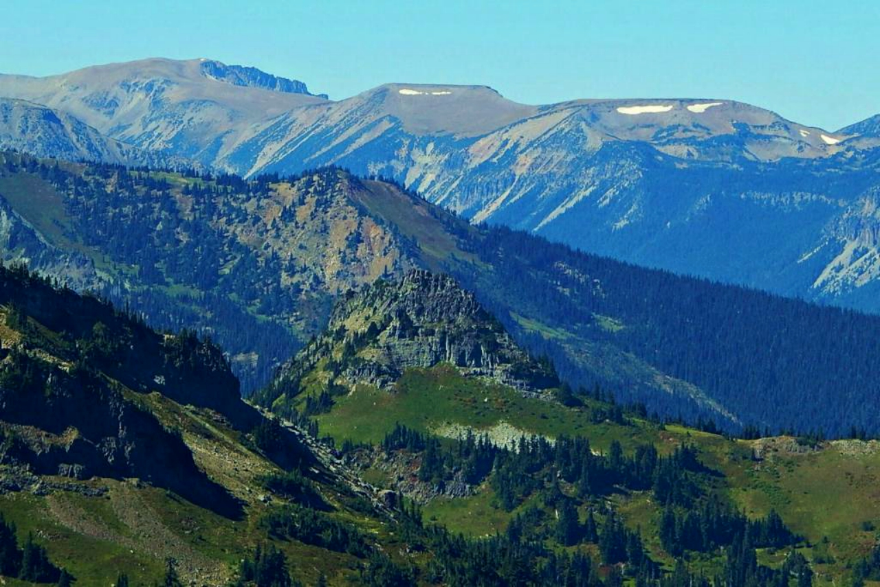 Burroughs Mountain seen from Tahtlum Peak. Mount Rainier National Park. Annotations for First, Second, Third Burroughs, and Yakima Peak.